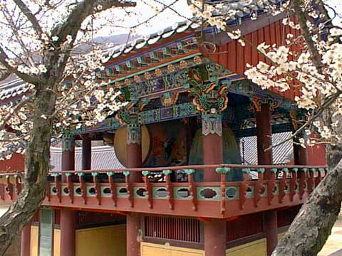 Classic Korean Architecture, a traditional temple building